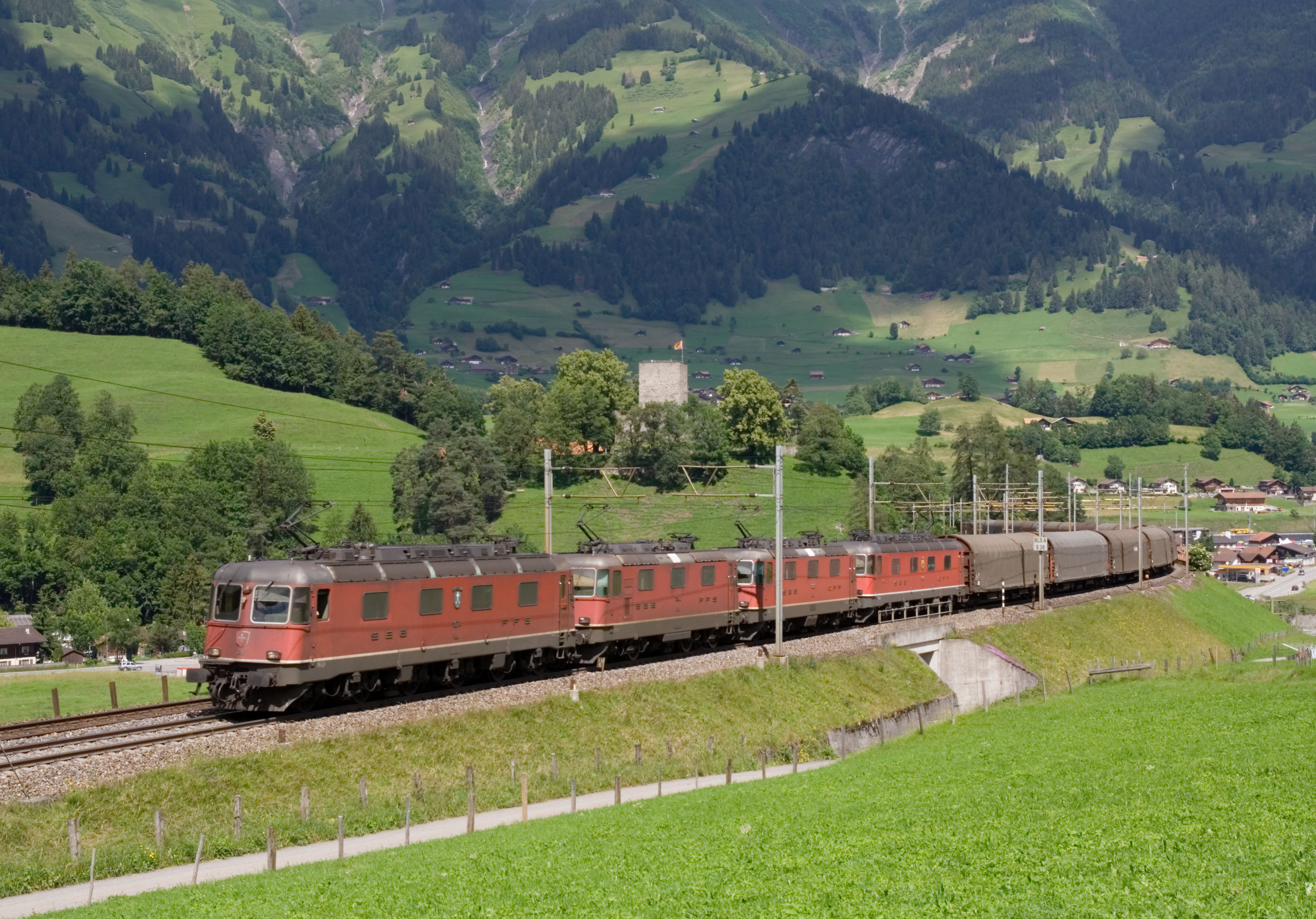 Quadruple heading of Re 4/4 II and Re 6/6 working in multiple in front of a steel train after Frutigen on the northern Lötschberg ramp. A bank engine (not visible on the picture) is at the end of the train.